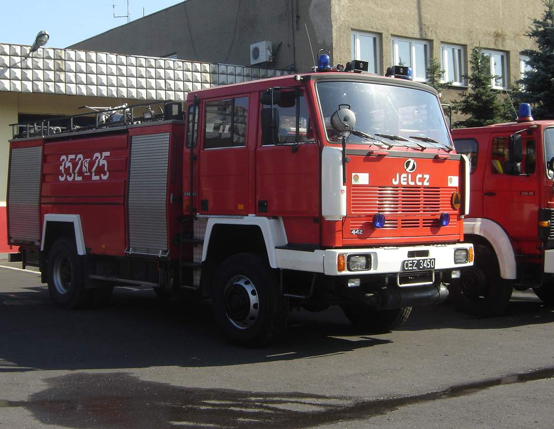 Polish fire engine Jelcz 014R (Jelcz 442 chassis) GCBA 5/24 of Częstochowa Fire Brigade